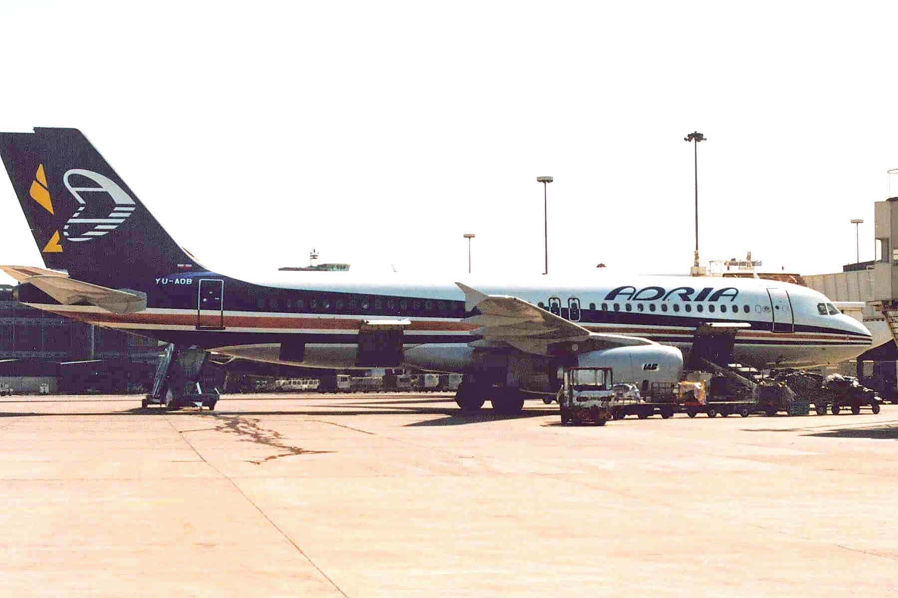 YU-AOB was leased from Cyprus Airways (c/n 028 5B-DAT) between Apr/Dec-90 and is seen here in basic Cyprus Aws c/scheme with Adria titles & tail logo